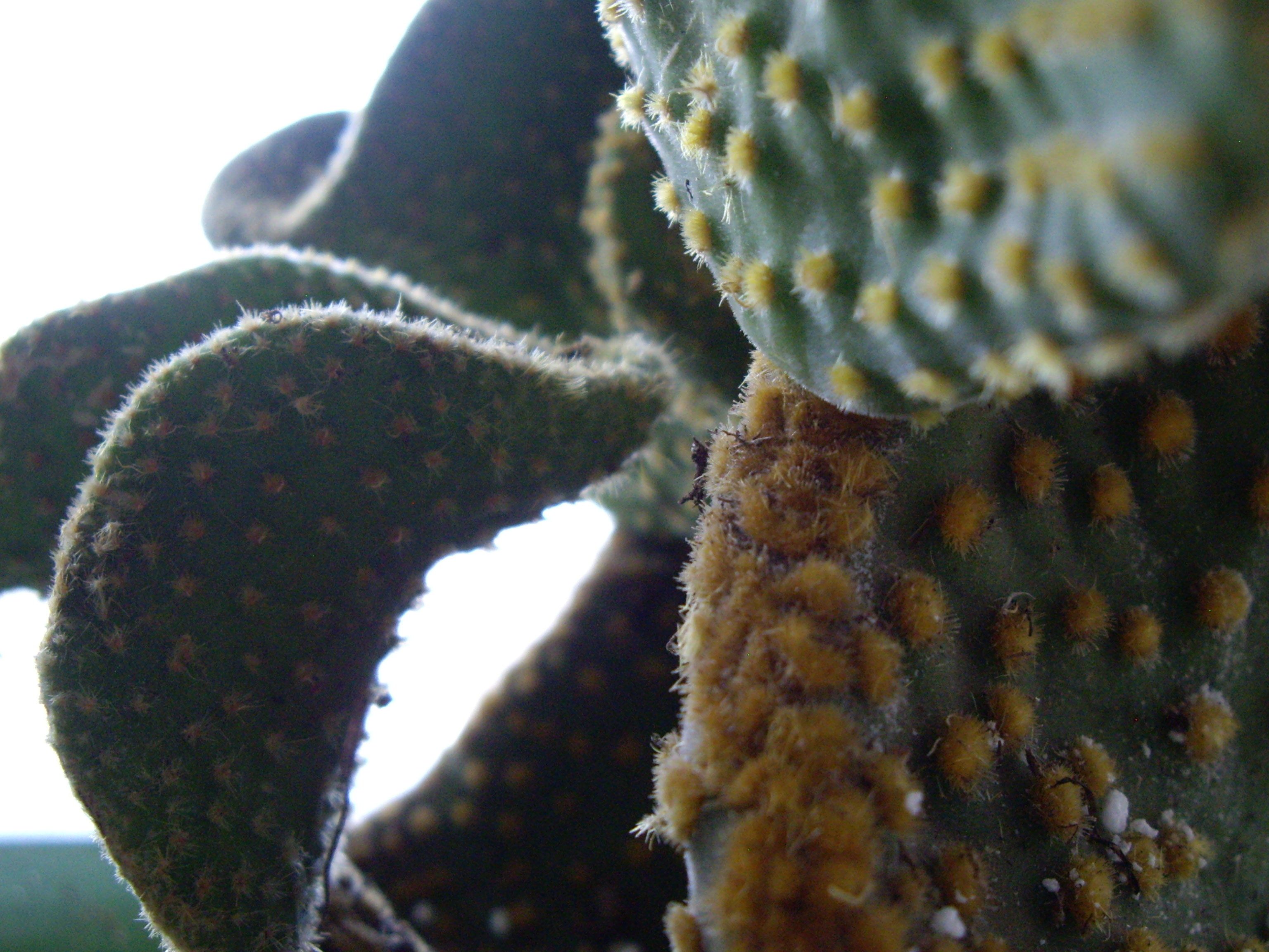 "Crazy Bunny" Opuntia microdasys 'Monstrose' is an undulated form of Opuntia microdasys ("Bunny Ears"). Covered with minute golden spines known as "glochids" (can cause irritation to the skin and eyes). Native to Mexico.